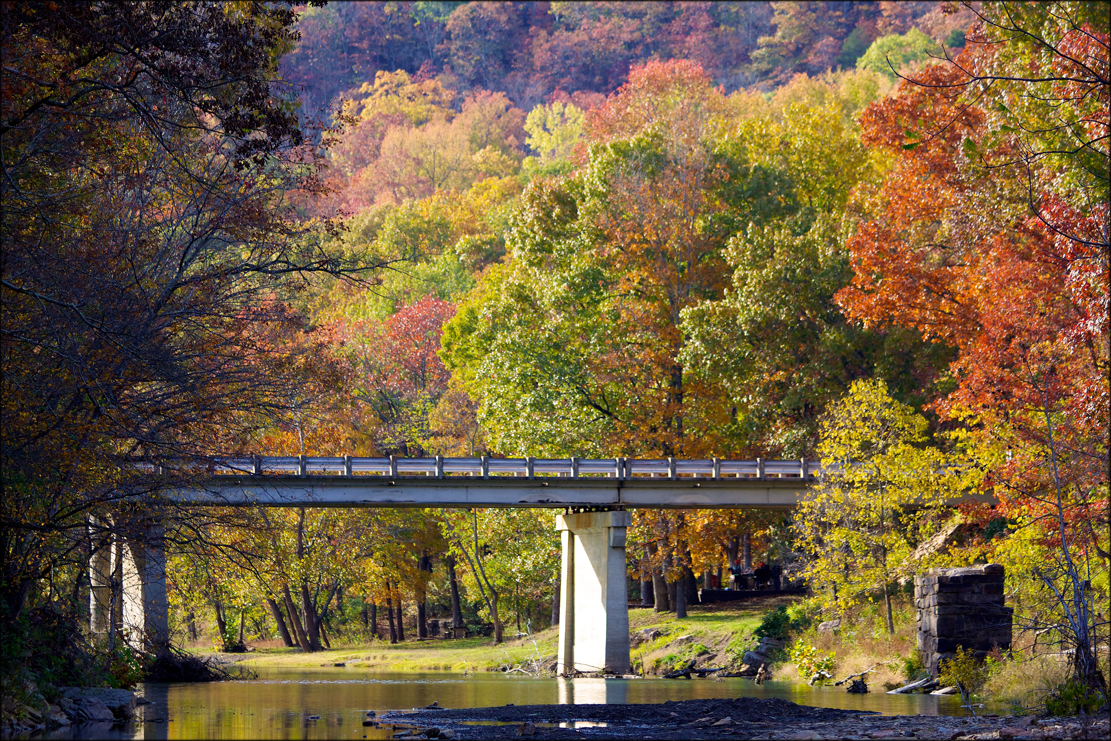 Lee Creek Bridge At Devil's Den State Park: The Autumn colors surround the Lee Creek Bridge at Devil's Den State Park near Winslow, AR. (from flickr)